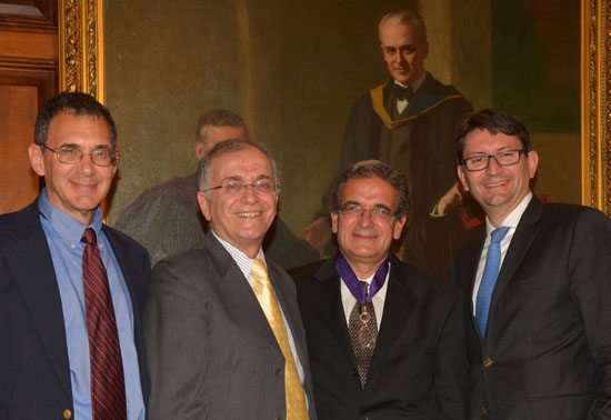 Acting Caltech President Ed Stolper, JPL Director Charles Elachi, Commandeur dans l'Ordre des Palmes Académiques recipient Ares Rosakis, and Consul General of France in Los Angeles Axel Cruau